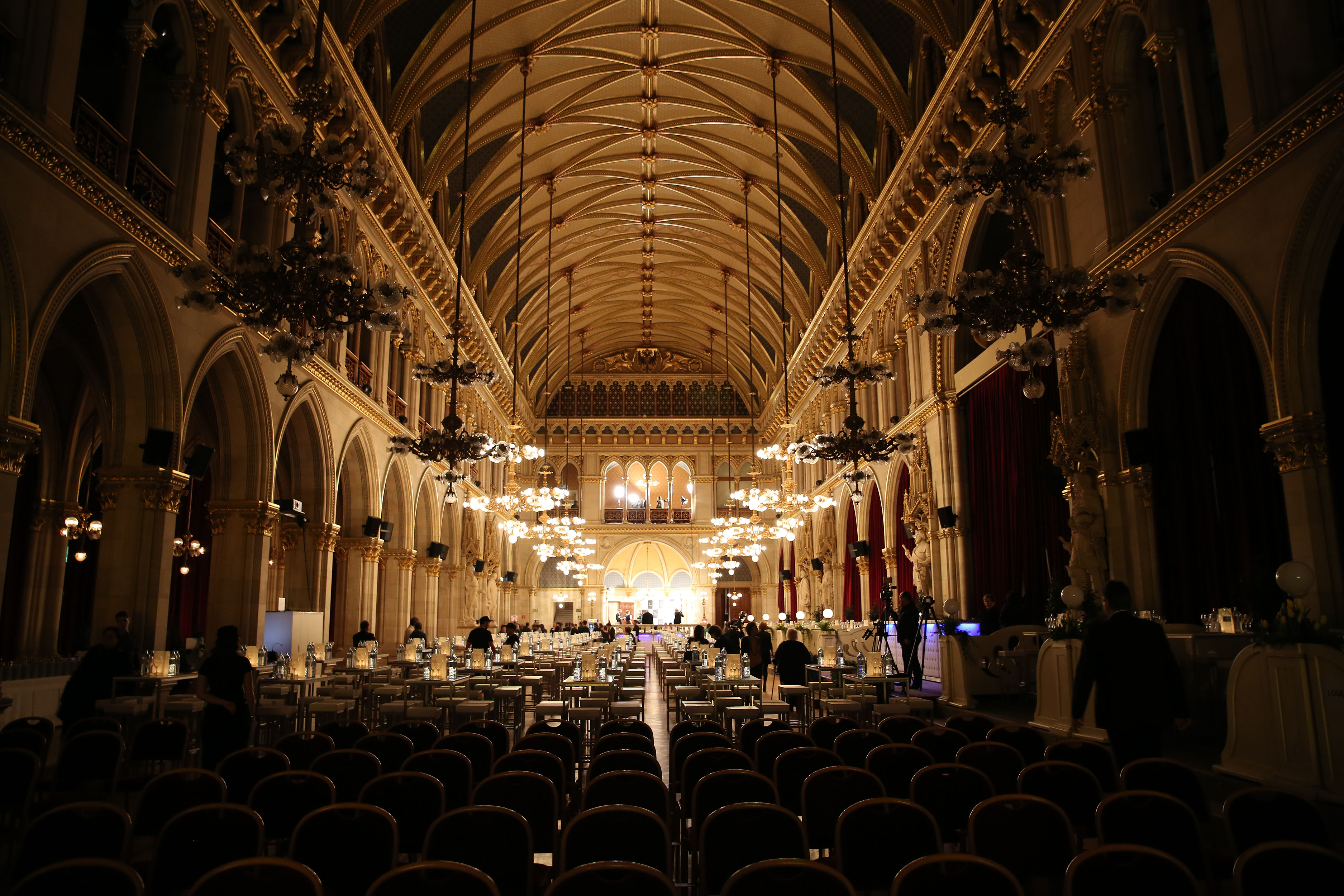 Main hall of the Rathaus in Vienna - Austrian Film Awards 2013.